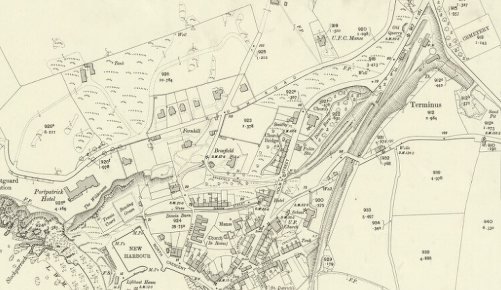 Scan of 1908 series 1:2500 Ordnance Survey map Wigtownshire sheet XXII.I showing Portpatrick railway station and the abandoned railway line to Portpatrick harbour